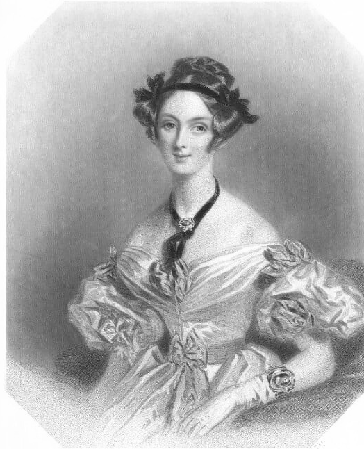 Stipple engraving of Adelaide Lister (1807-1838).